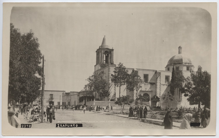 Title: Irapuato Creator: Waite, C. B. (Charles Burlingame) (1861-1929) Date:ca. 1907 Part Of: Mexico Physical Description: 1 photographic print: gelatin silver; 20.2 x 12.6 cm. File: ag1983_0281_2378_irapuato_opt.jpg Rights: Please cite Southern Methodist University, Central University Libraries, DeGolyer Library when using this image file. A high-quality version of this file may be obtained for a fee by contacting . For more information, see: View Mexico: Photographs, Manuscripts, and Imprints